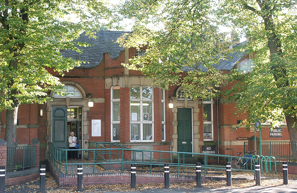 Levenshulme Public Library, Barlow Road, Levenshulme, Manchester. For use in the Levenshulme article. Taken by WebHamster, 5 October 2007. On a Minolta Dimage 7HI